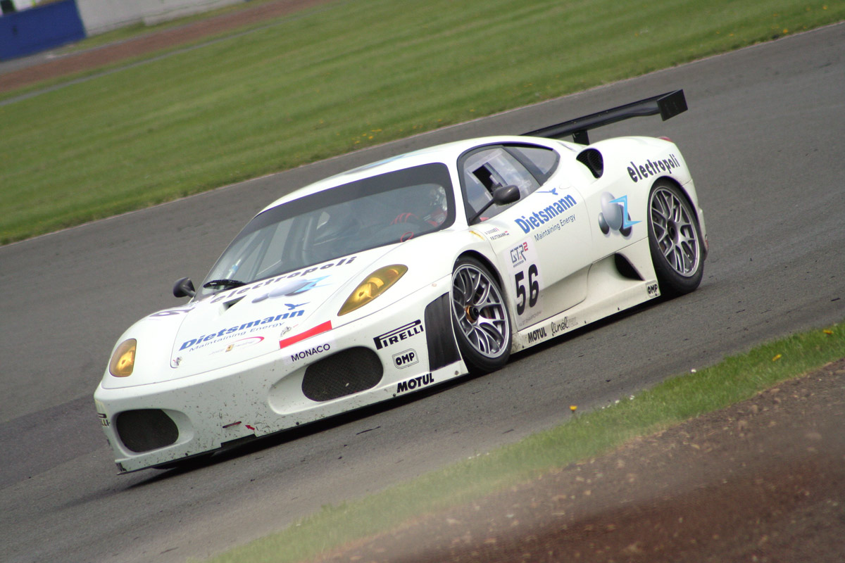 Ferrari 430 GT2 Taken at the FIA GT Championship 7th May 2006 Silverstone